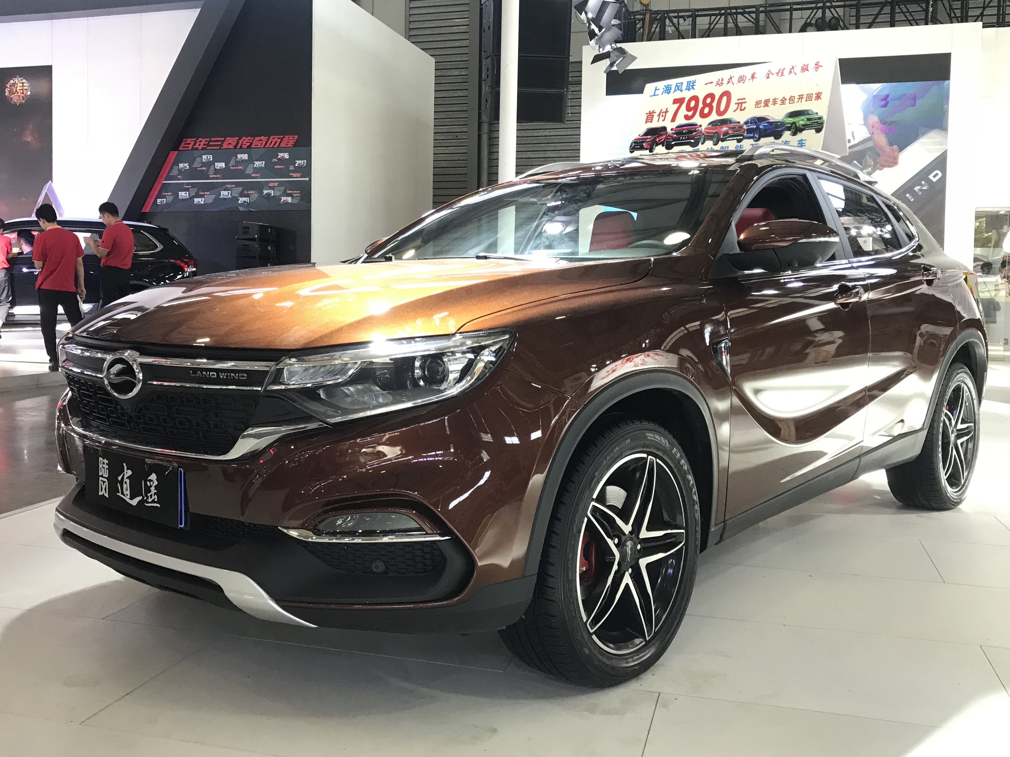 Landwind Xiaoyao front